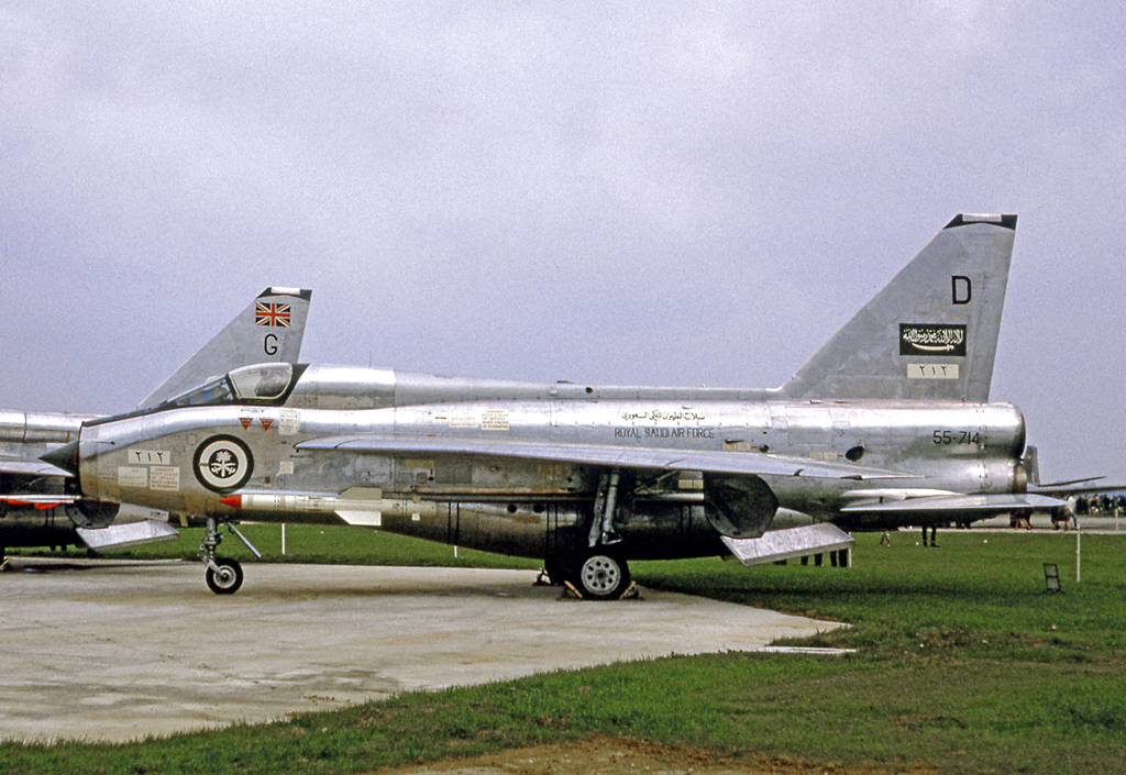 English Electric Lightning T.55 55-714 of the Royal Saudi Air Force at RAF Coltishall in 1968